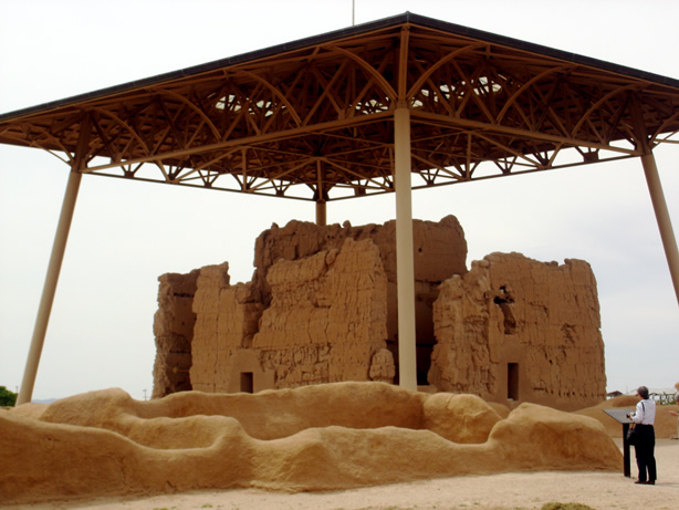 Exterior of Casa Grande National Monument. Picture taken 3/28/06.